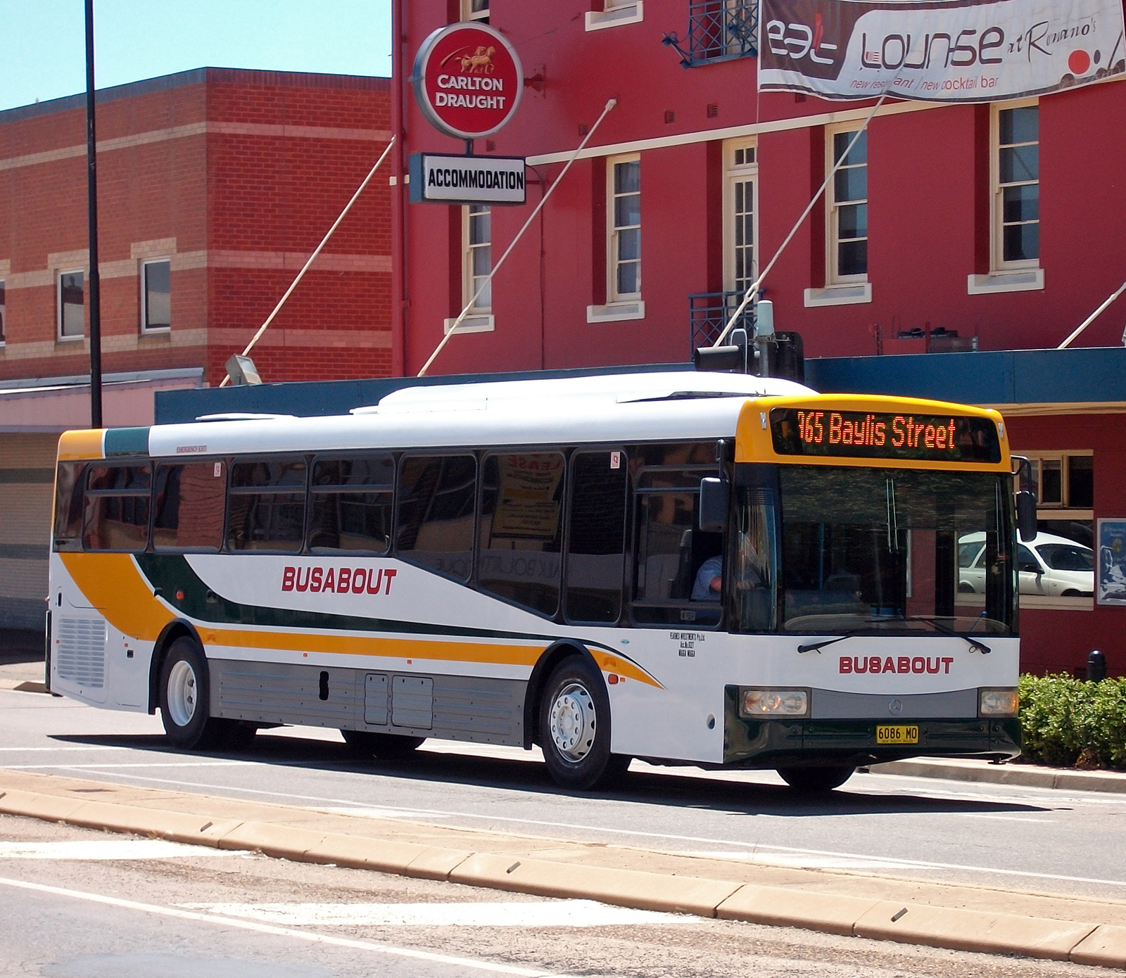 Bustech VST bodied Mercedes-Benz OC500LE (built 2006, registered 6086 MO, repainted with new livery) returning back to the depot after completing route 965 operated by Busabout Wagga Wagga.